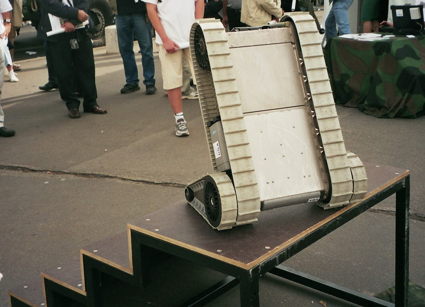 Nation/Defense days, Esplanade des Invalides, Paris, France, September 24-25, 2005: demonstration of the PackBot by DGA